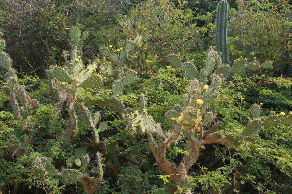 Opuntia wentiana